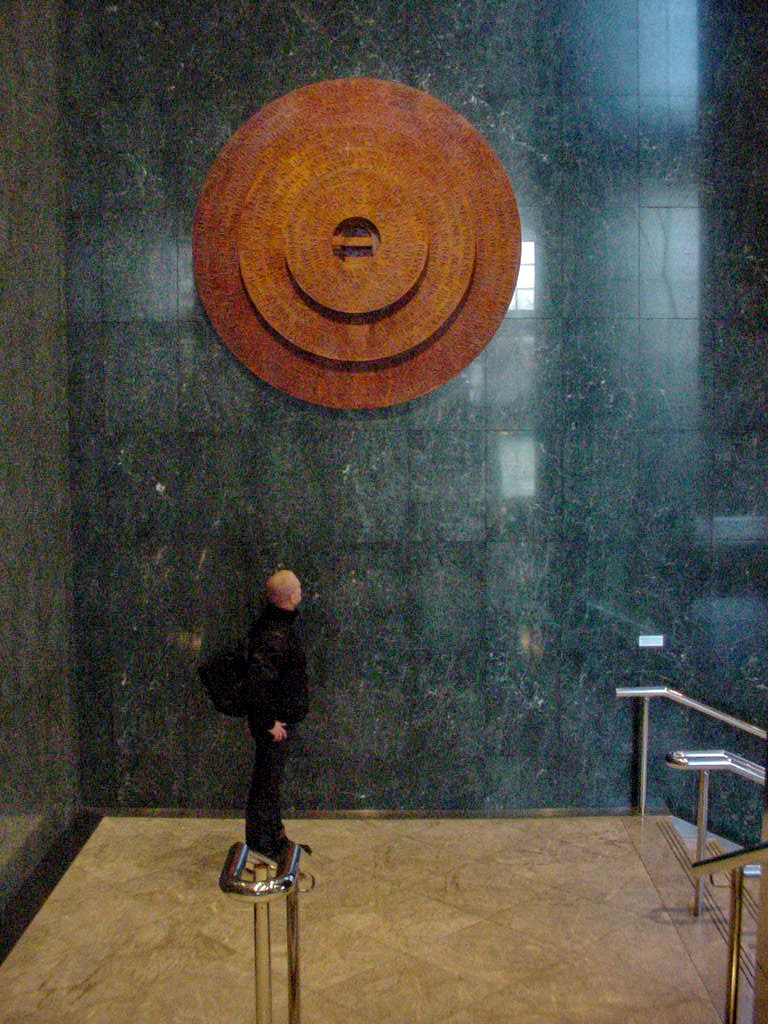 The lobby of 1 Canada Square, Canary Wharf, London: sculpture '"Twentieth Century-Thames" by Keith Milow (1 of 4 tondo's, 1998)